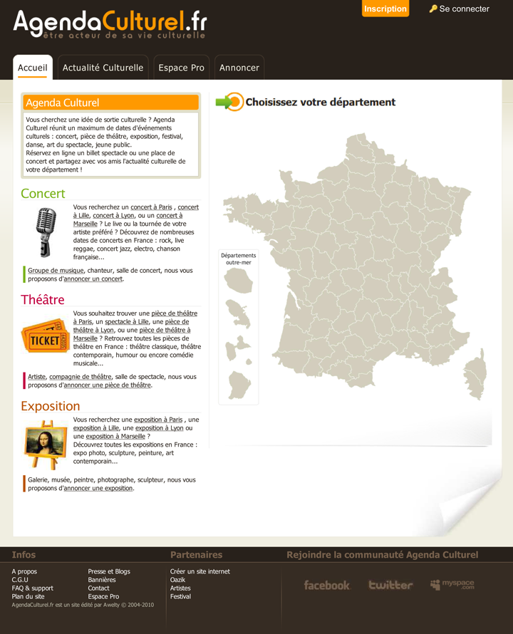 AgendaCulturel.fr homepage